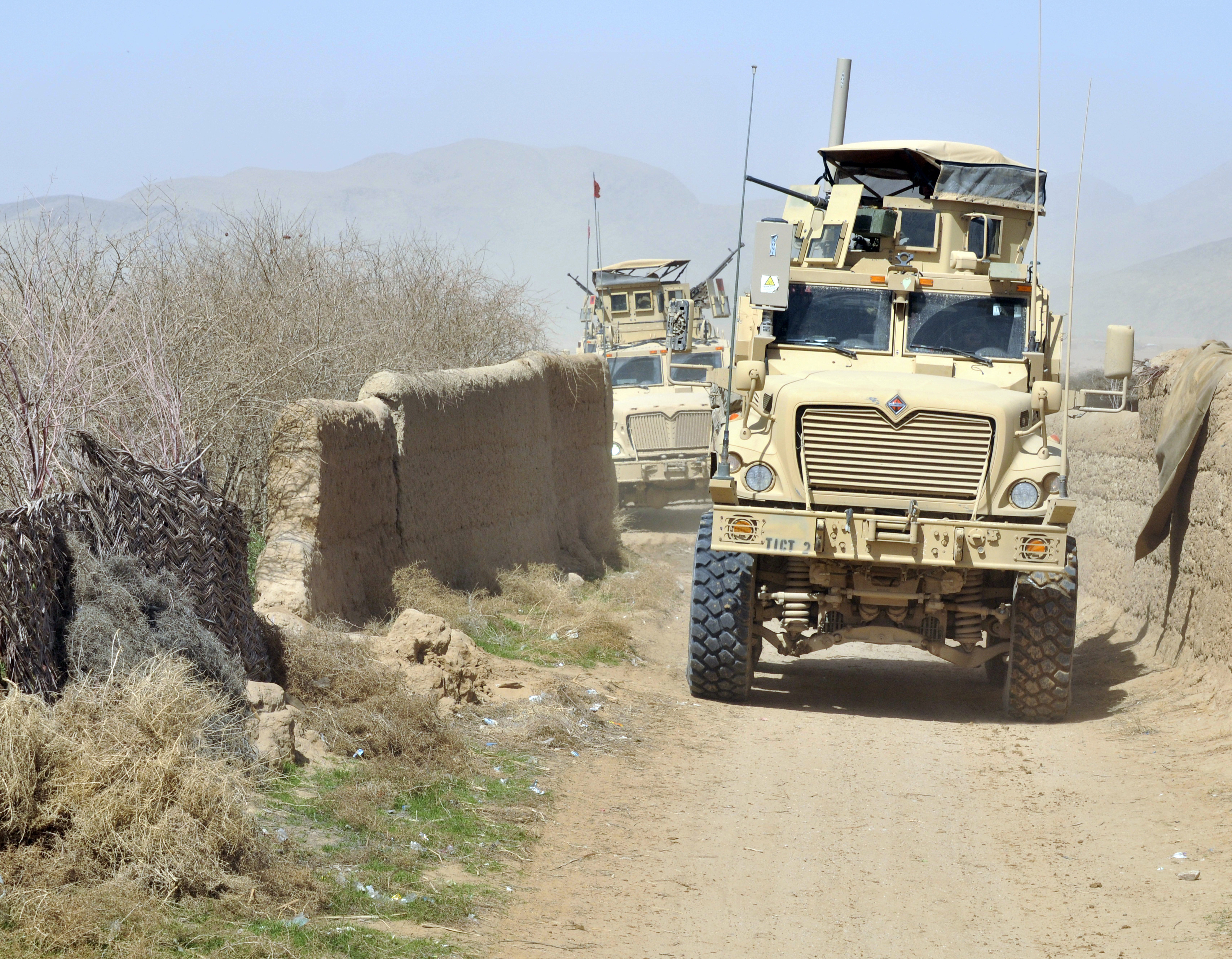 Mine-resistant, ambush-protected vehicles assigned to the U.S. Army and Albanian special operations forces travel through a village in the Spin Boldak district, Kandahar province, Afghanistan, March 6, 2013, during Operation Southern Fist III. The joint operation with Afghan National Security Forces members was intended to eliminate an insurgent infiltration route used to gain access to the province.